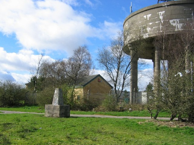 Carrickstone water tower. Until recently Carrickstone was a hilltop farm, the trigpoint in a hedge at the side of a lane. Now it has been swallowed up by new housing in Cumbernauld. The water tower is a hilltop landmark.